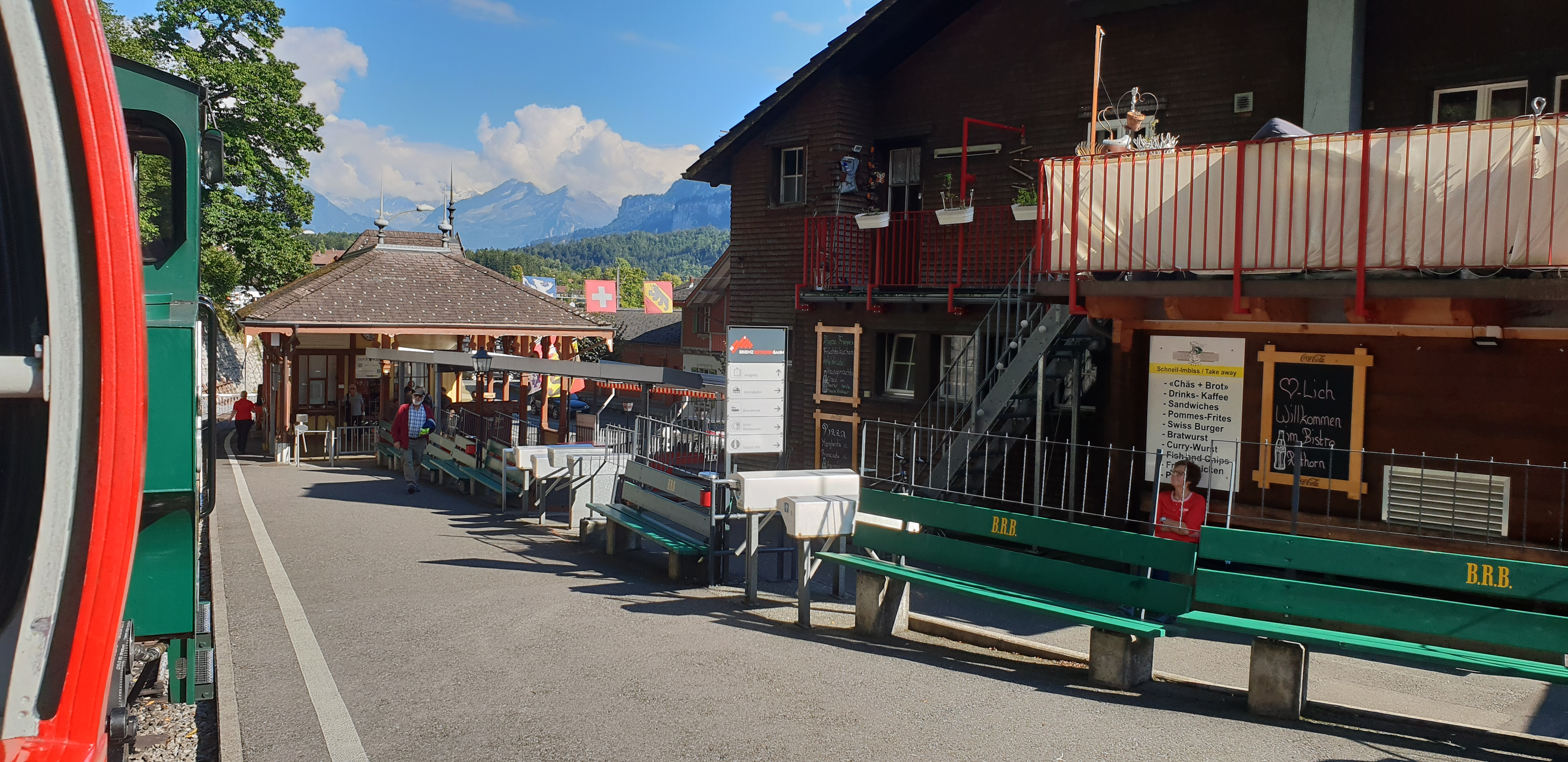 The Brienz Rothorn Bahn platform at Brienz railway station